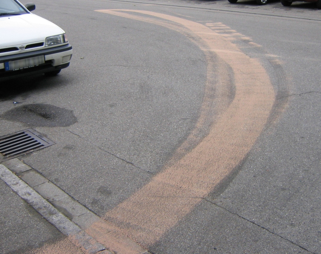 Smear of oil covered with binding agent